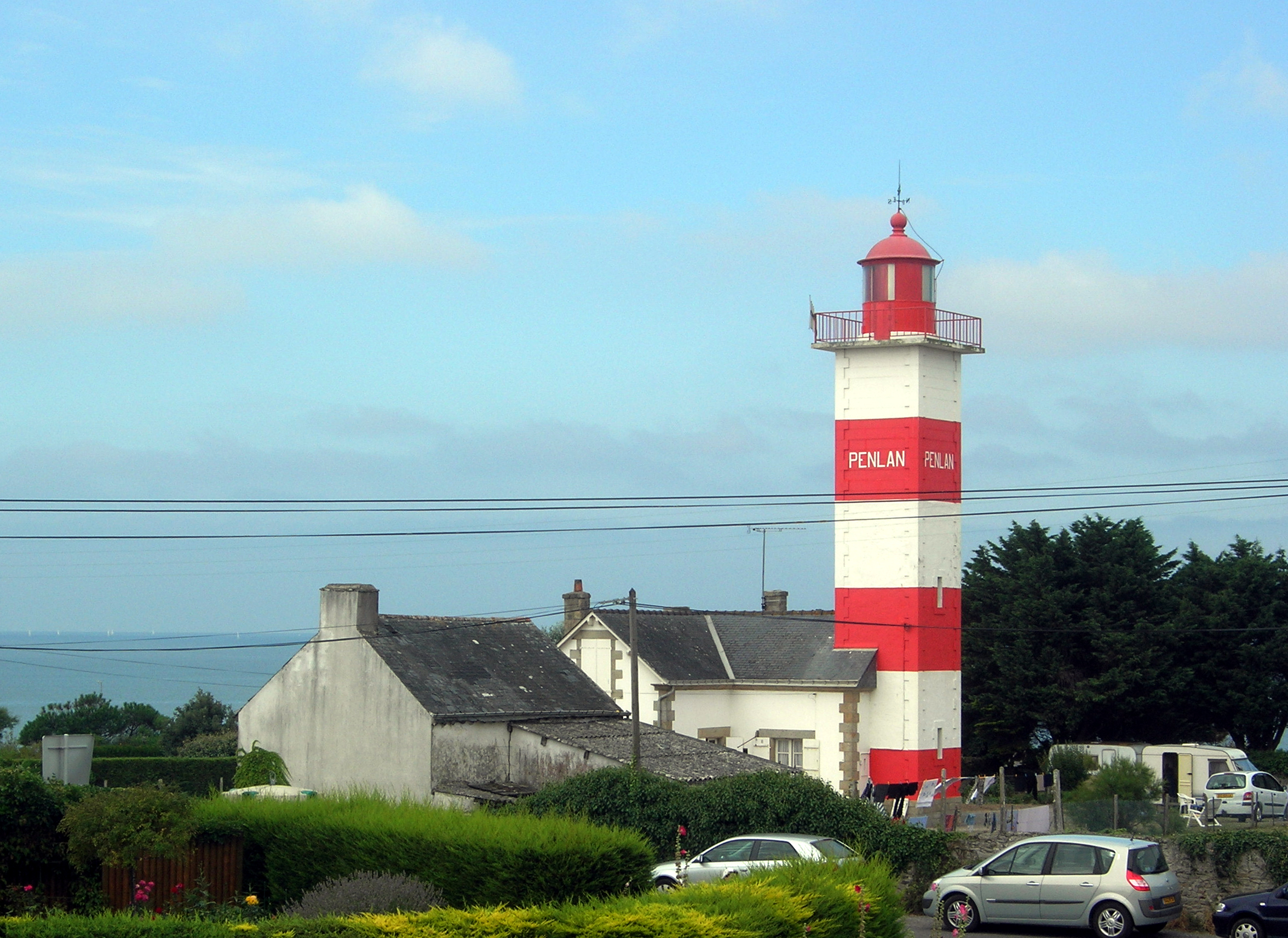 Description =Phare de Penlan a l'embouchure de la Vilaine Source =Photo taken by Remi Jouan Date =Aout 2006 Author =Remi Jouan